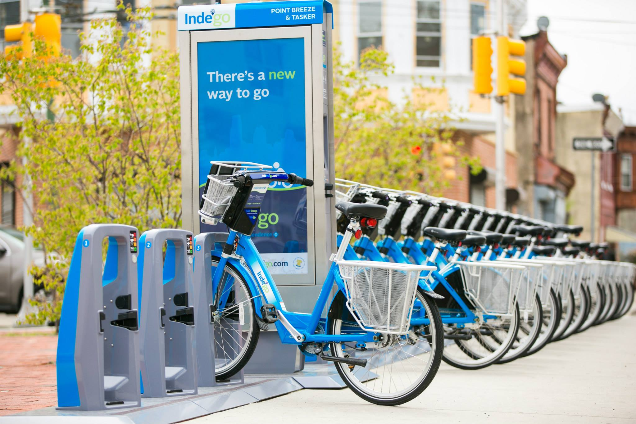 Indego, Philadelphia's bikeshare program, launched on April 23, 2015 with B-cycle's version 2.0 station.